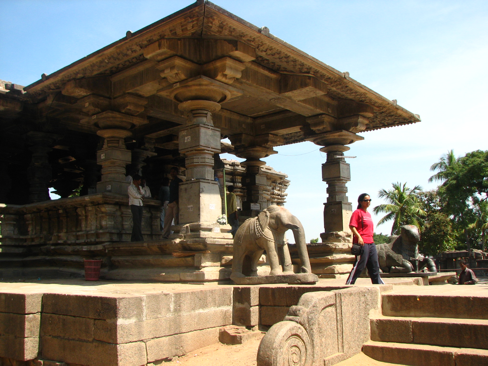 The 1000 Pillar Temple Photograph taken by Devadas along with Poornima Ozarkar on 27 October 2007 at Warangal. Since there is no picture of this temple available in the Wikipedia, it makes sense to make it accessible for everyone.